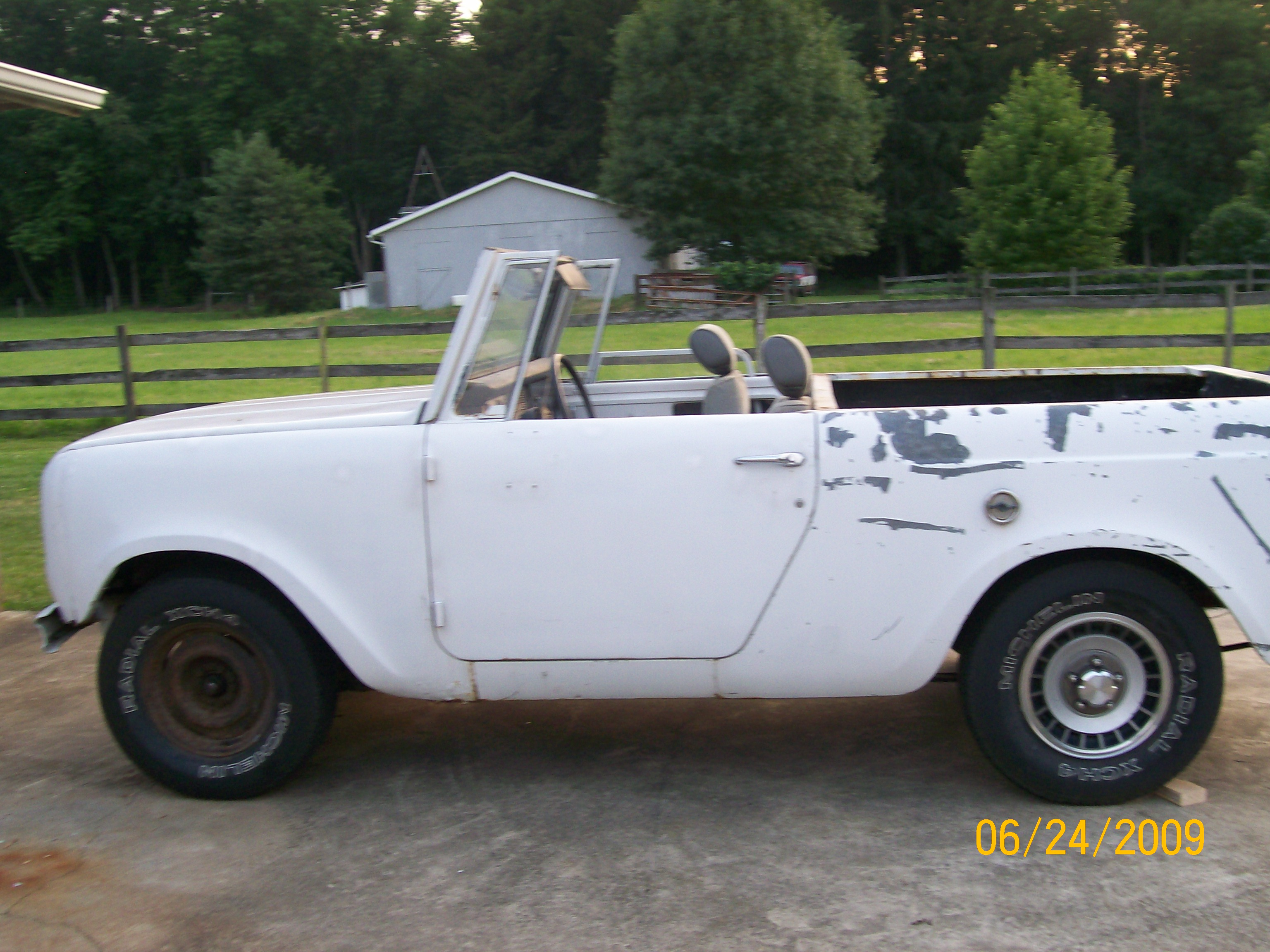 Unrestored 1969 International scout 800A with the top off